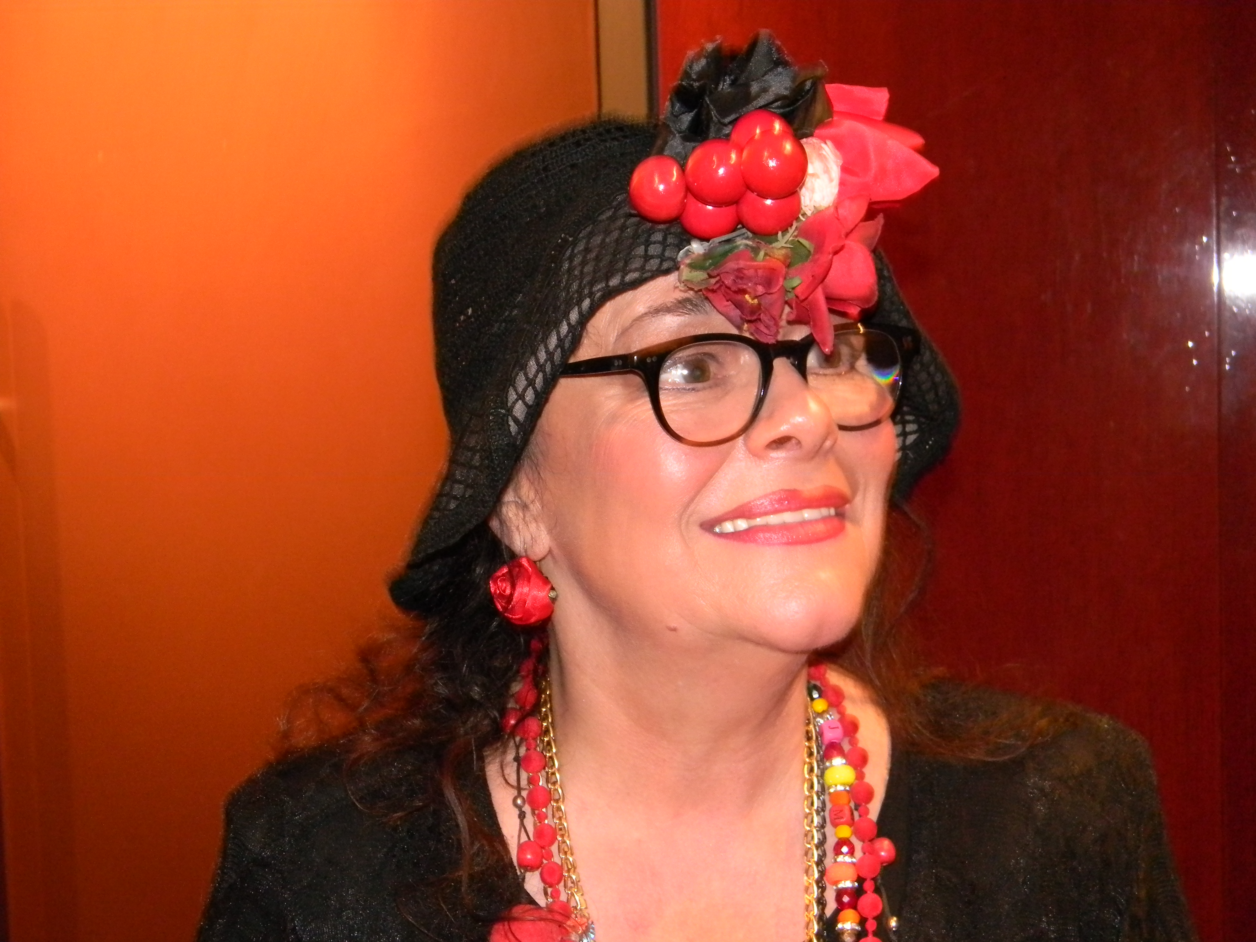 Serbian Actress Vesna Čipčić in Zenski razgovori theater performance in Isabel Bader Theatre, Toronto, Canada